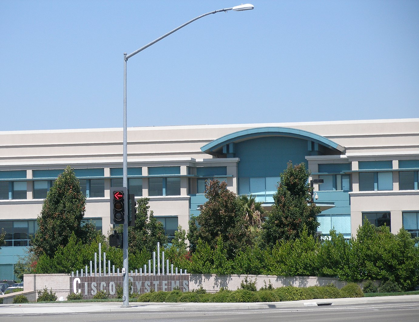 Cisco Systems Building 2 at the San Jose, California main campus. Photographed by user Coolcaesar on August 24, en:2006.